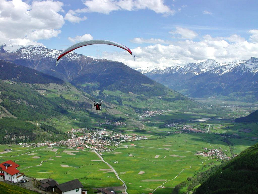 The higher part of Vinschgau. Taken from Ski Resort Watles. View towards Mals, Glurns and Schluderns